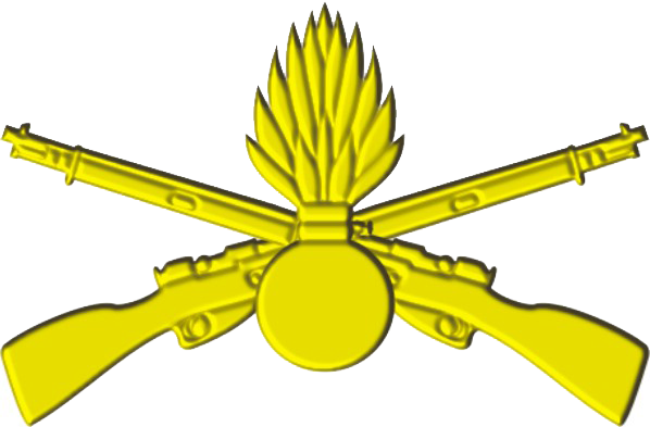 Mechanized troops branch insignia of Ukraine